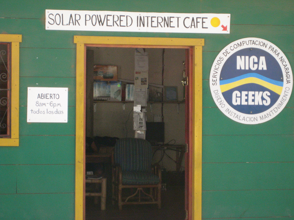 Nica Geeks - Solar powered internet cafe, San Juan del Sur, Nicaragua